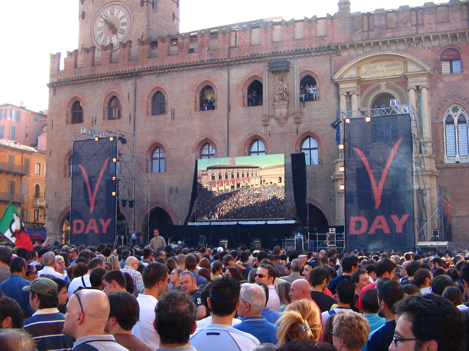 V-Day in Bologna; the stage